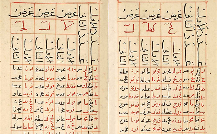 A page of Al-Khalili's qibla table, showing the direction of qibla calculated from various latitudes and longitudes. Entries are written in Arabic sexagesimal notation, black indicates northerly directions and red indicates southerly. For more details, see: King, David A. “Al-Khalīlī's Qibla Table.” Journal of Near Eastern Studies, vol. 34, no. 2, 1975, pp. 81–122. JSTOR